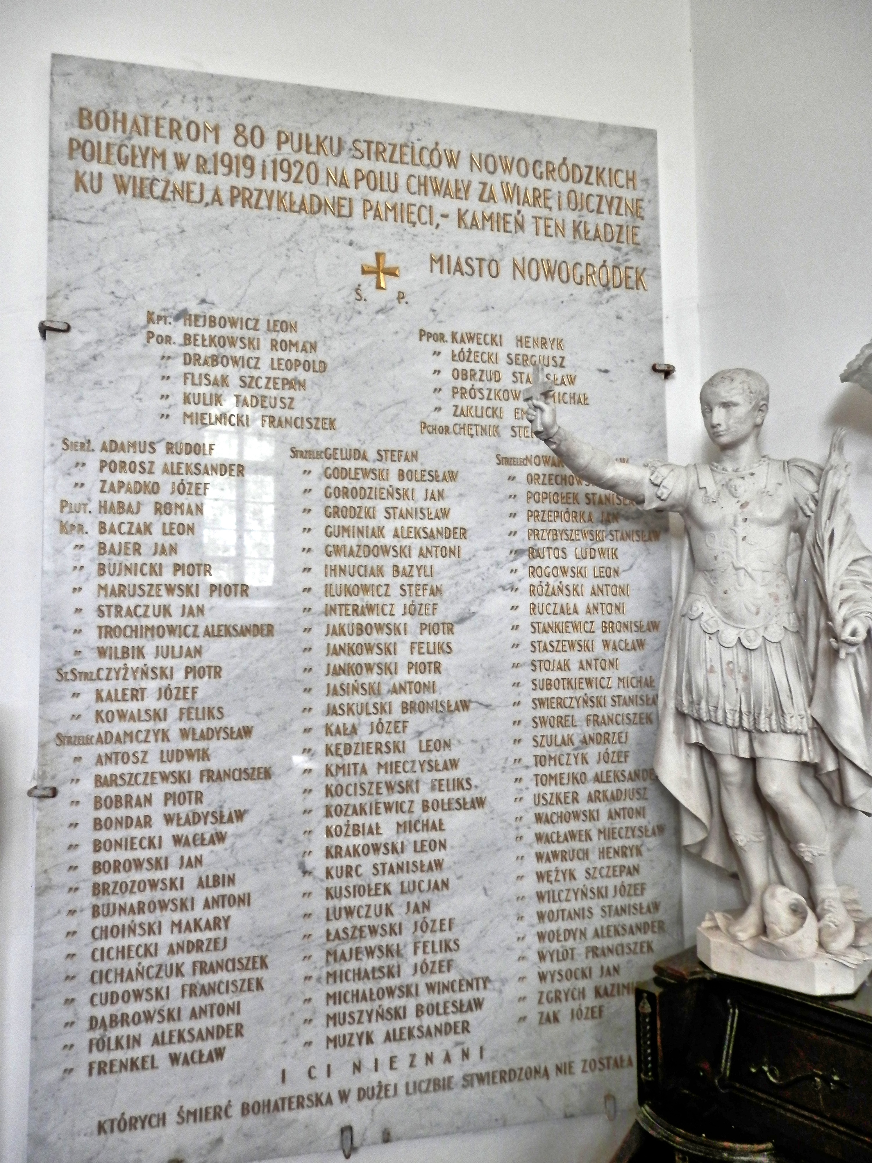 Transfiguration Roman Catholic Church in Navahrudak (XVIII century)